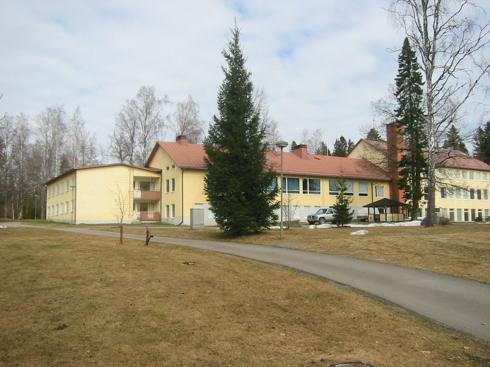 Karkku evangelical folk high school in Vammala, Finland